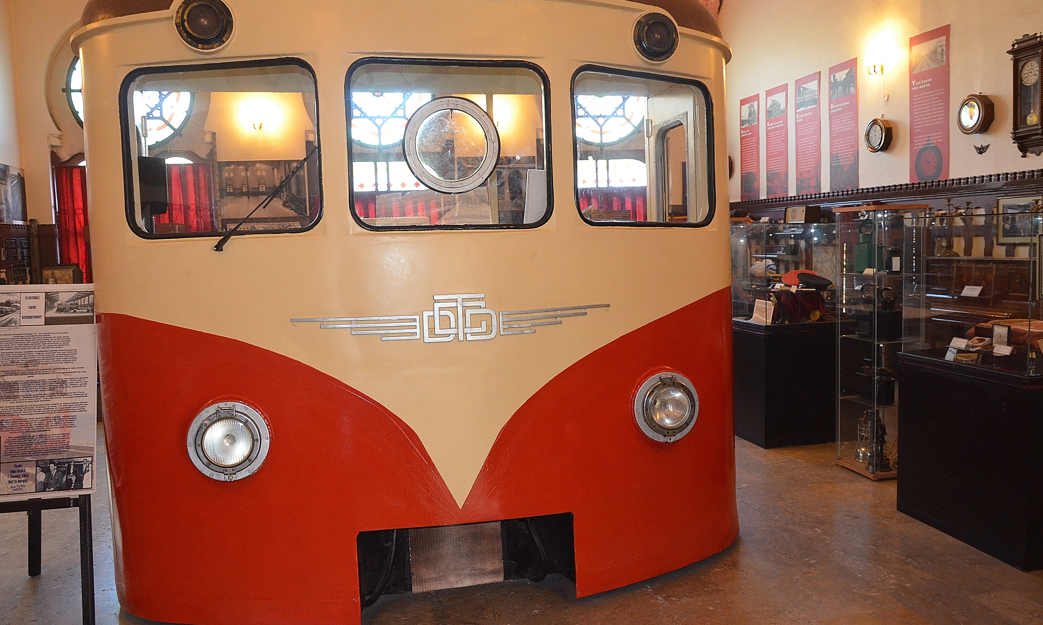 Front of commuter train locomotive with engineer's instruments inside in the Istanbul Railway Museum